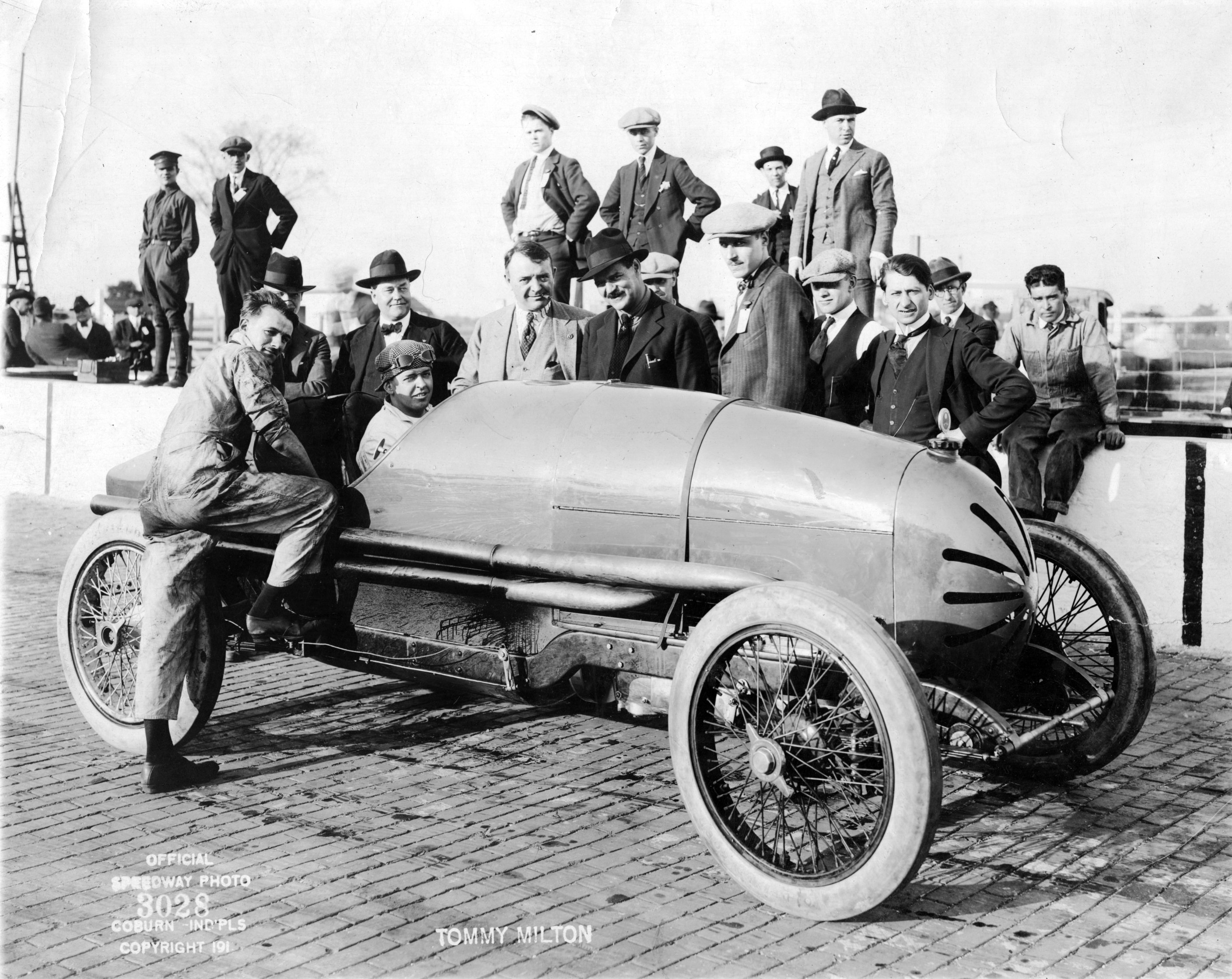 Tommy Milton, winner of the 1921 Indy 500, at the wheel of his Frontenac race car before the start of the race. To his right, Barney Oldfield and Louis Chevrolet.